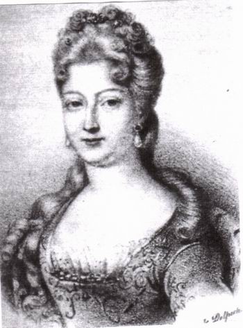 Marie Louise Elisabeth of Orléans, Duchess of Berry, oldest daughter of Duke Philippe d'Orléans, Duke of Orléans and Francois Marie of Blois (daughter of King Louis XIV. of France and his maitresse Madame de Montespan), wife of Charles of France, Duke of Berry (third son of Louis, Le Grand Dauphin, and Princess Maria Anna Victoria of Bavaria), MARIE-LOUISE-ELISABETH D'ORLEANS, DUCHESSE DE BERRY (1695-1719), 17th century